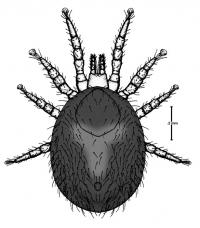 Picture of male Ophionyssus natricis.